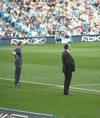 Managers of Manchester City and Liverpool FC, Stuart Pearce and Rafael Benítez